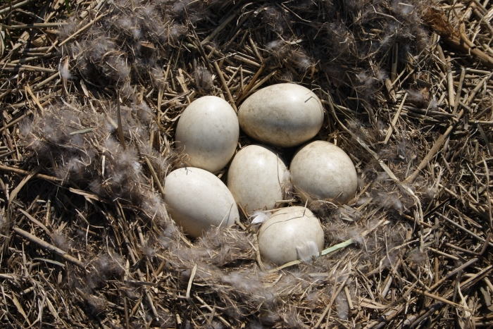 Nest of greylag goose, Mekszikópuszta, Hungary